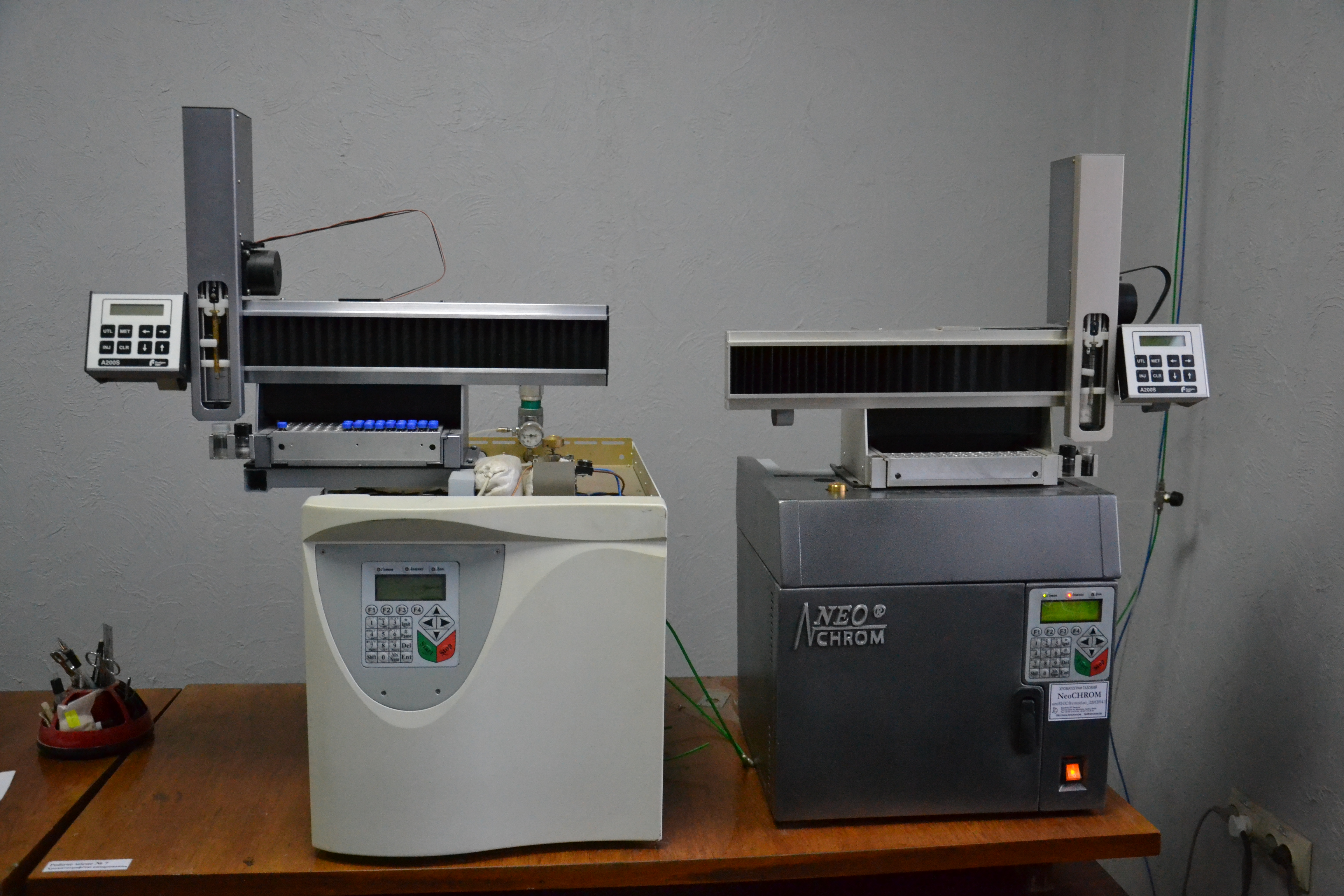 Gas Chromatograph NeoCHROM